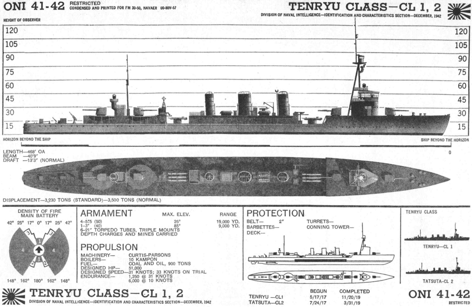 Silhouette of the Japanese light cruiser Tenryu